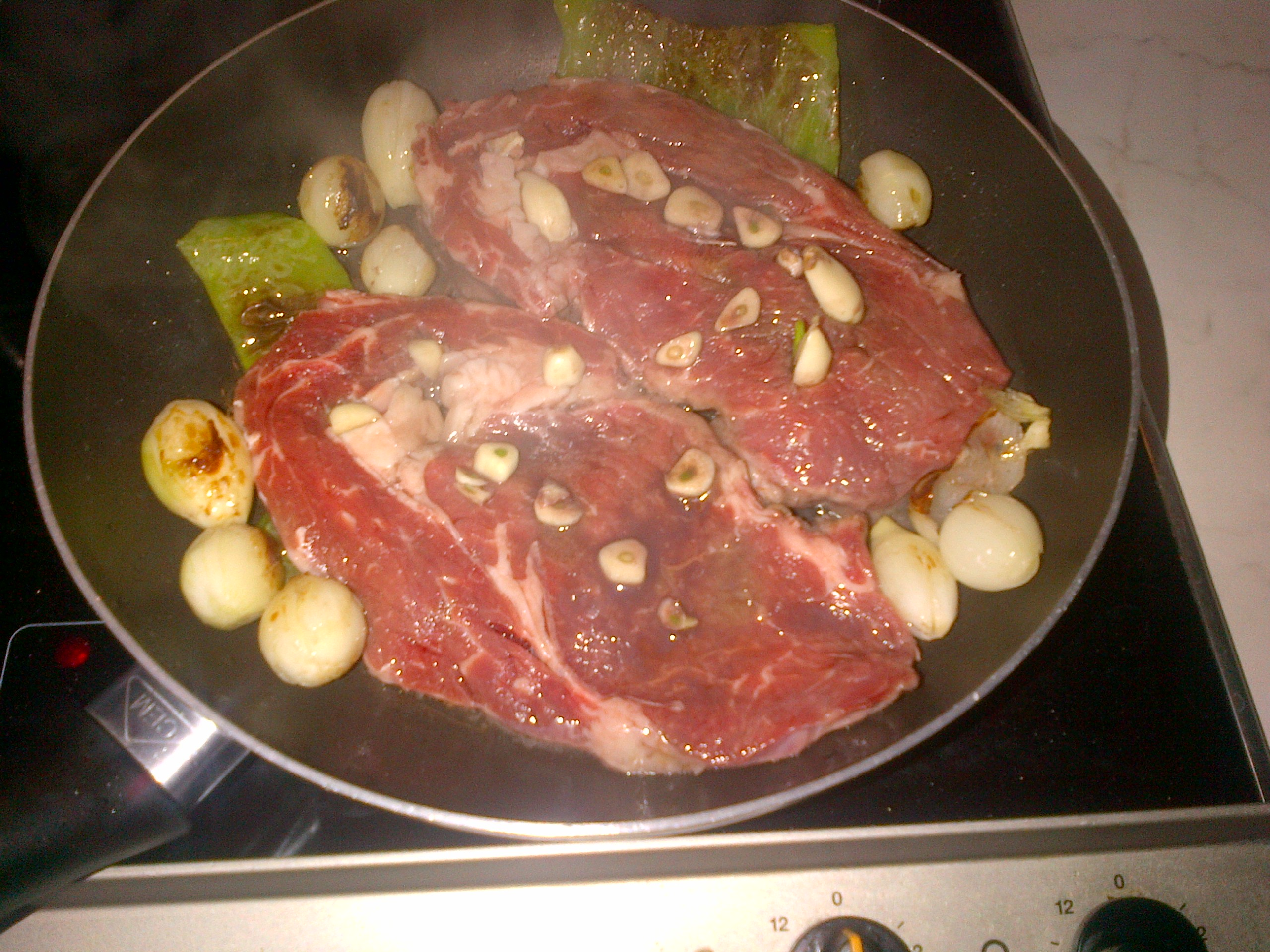 How to make entrecote steaks at home...